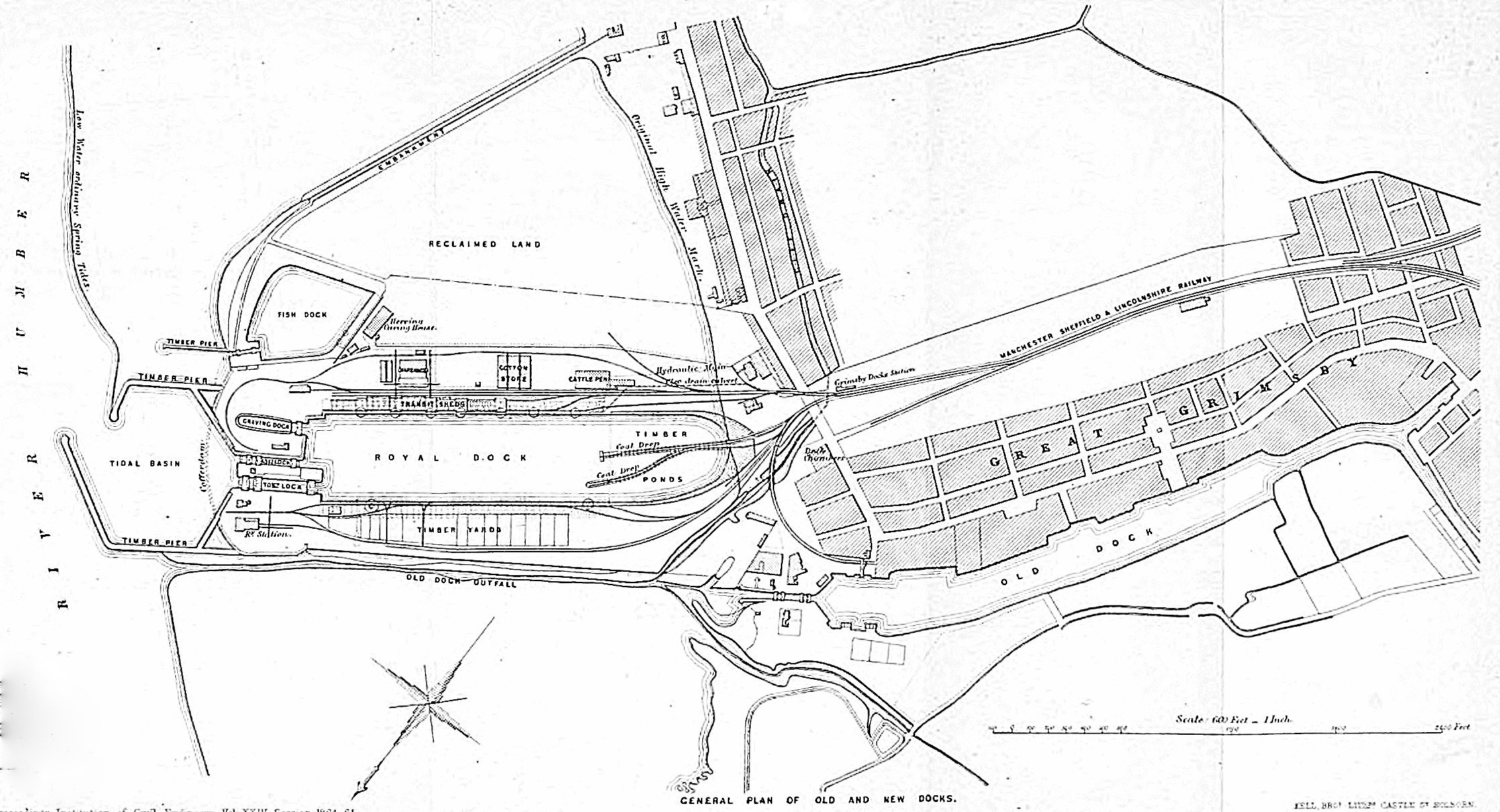 Extract from the plate illustrations in Description of the Great Grimsby (Royal) Docks 38-53. Institute of Civil Engineers (1864).